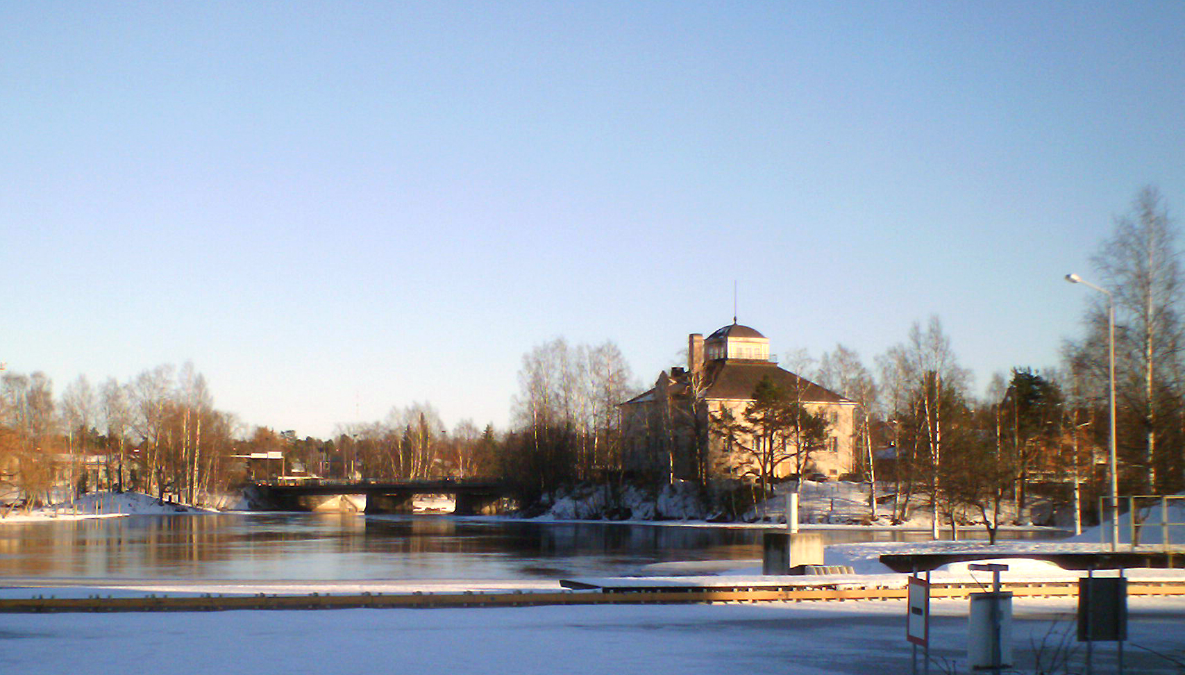 Pielisjoki castle and Pielisjoki river in Joensuu, Finland